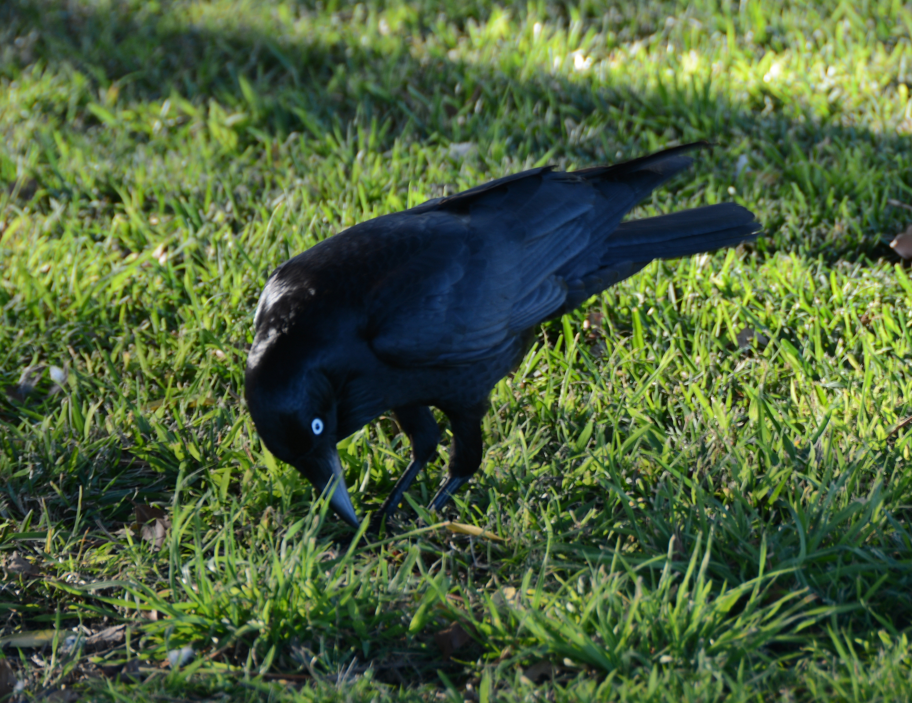 Crow, Kensington Park, Kensington, Sydney